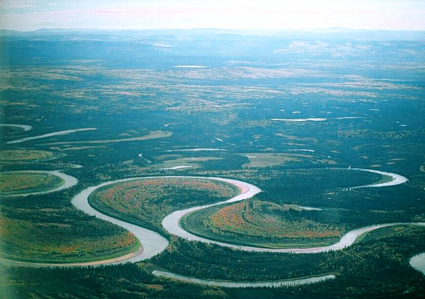 Meanders of Nowitna River, Alaska